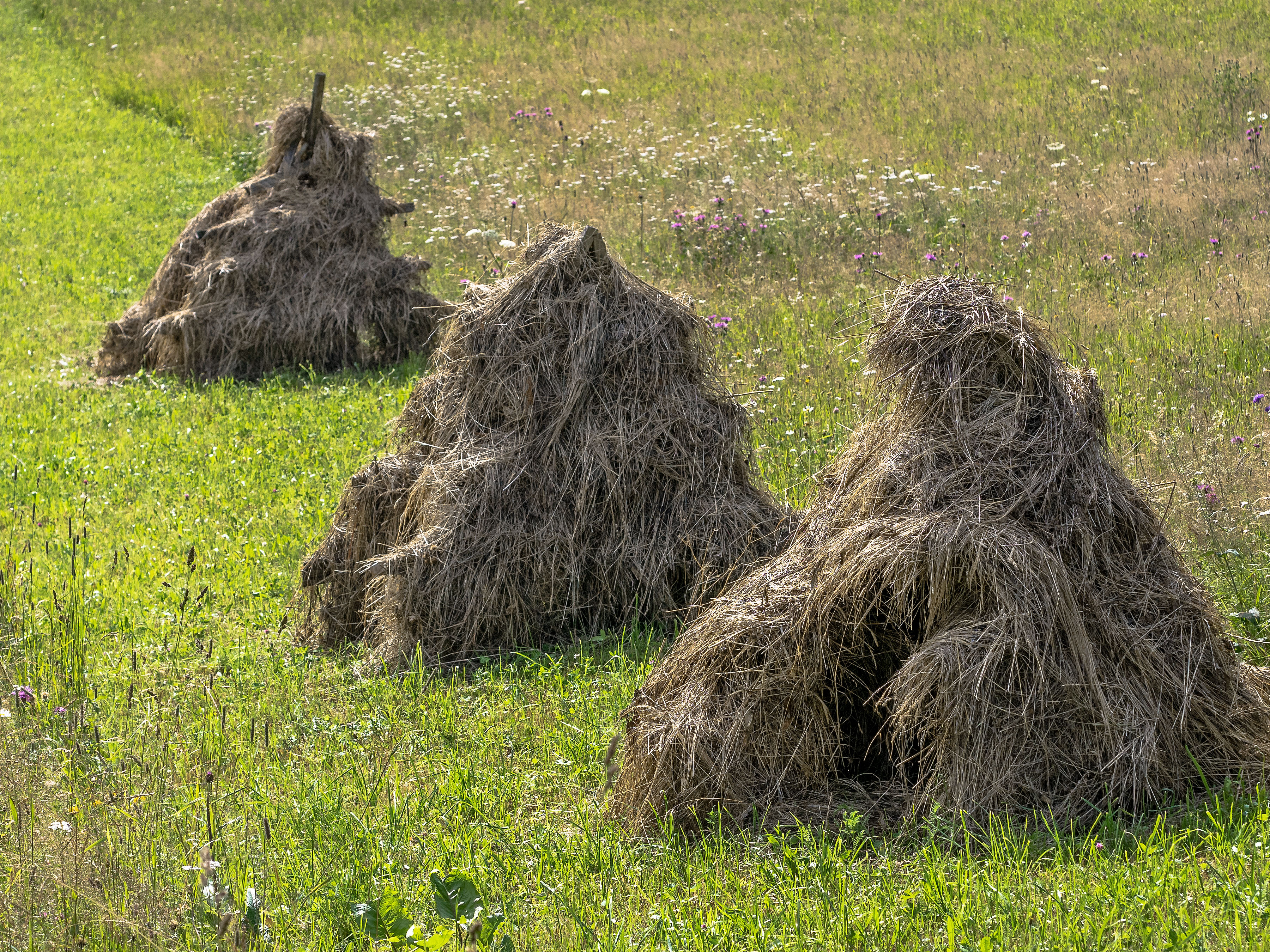 Haystacks in the Jamtal valley. Tyrol, Austria